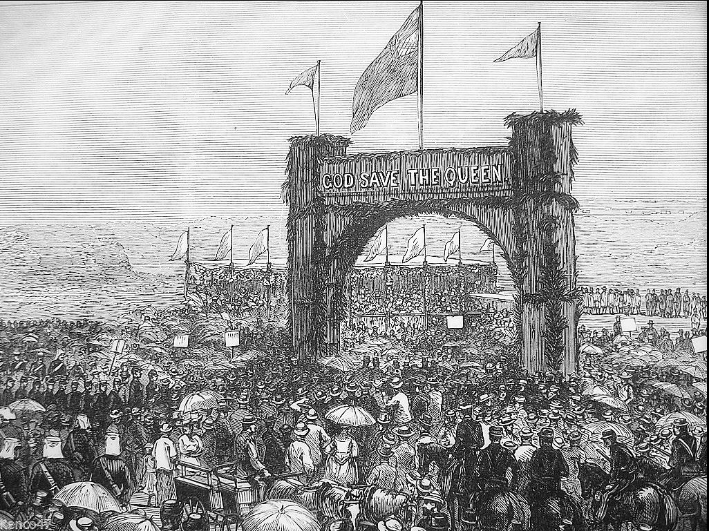 Inauguration Ceremony of the Natal Government Railway in Durban